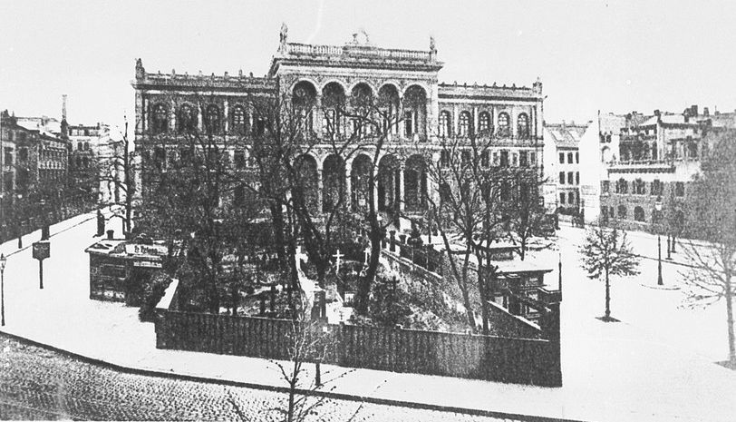 Cemetery of the Trinity Church congregation on the forecourt of the Potsdamer Bahnhof railway station in Berlin, ca. 1890. The street in the foreground is Königgrätzer Straße, now Stresemannstraße. The cemetery was levelled as late as 1922 and replaced with a public green space.